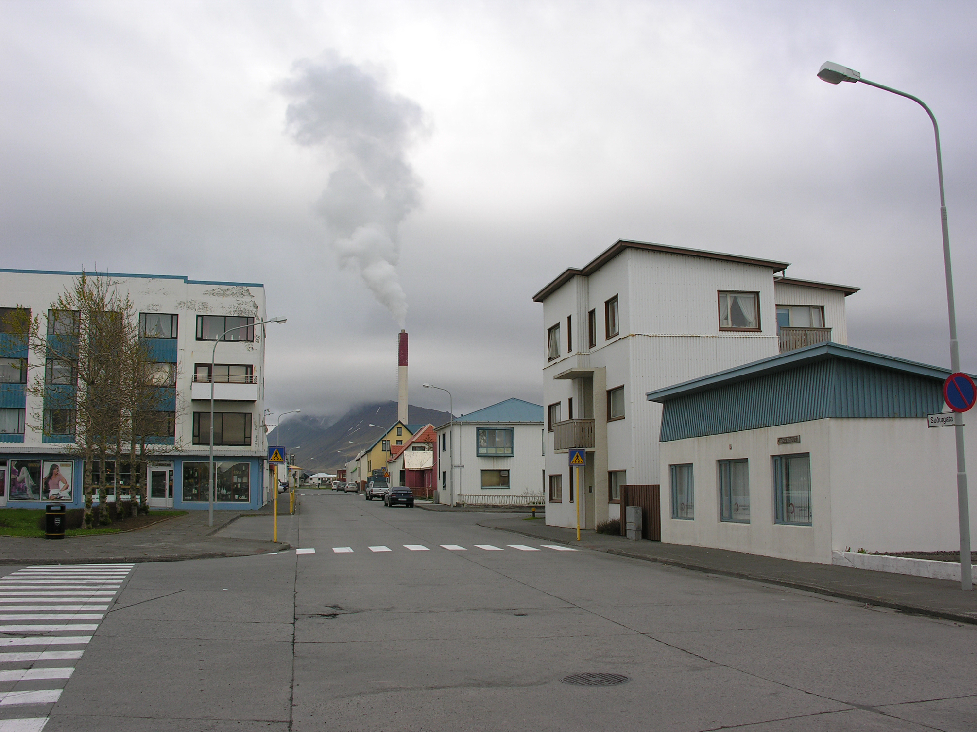 Iceland, Akranes